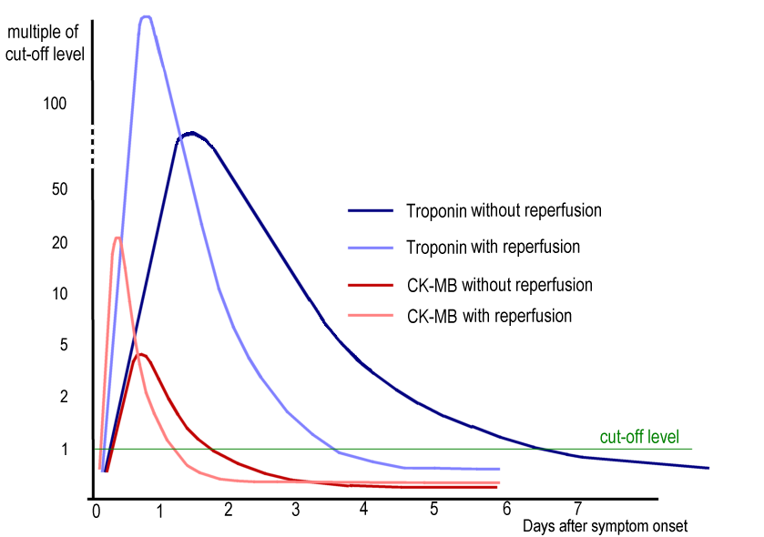 typical changes in CK-MB and cardiac troponin in Acute Myocardial Infarction